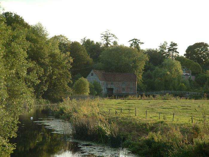 Sturminster Newton water mill, on the River Stour, Dorset, UK